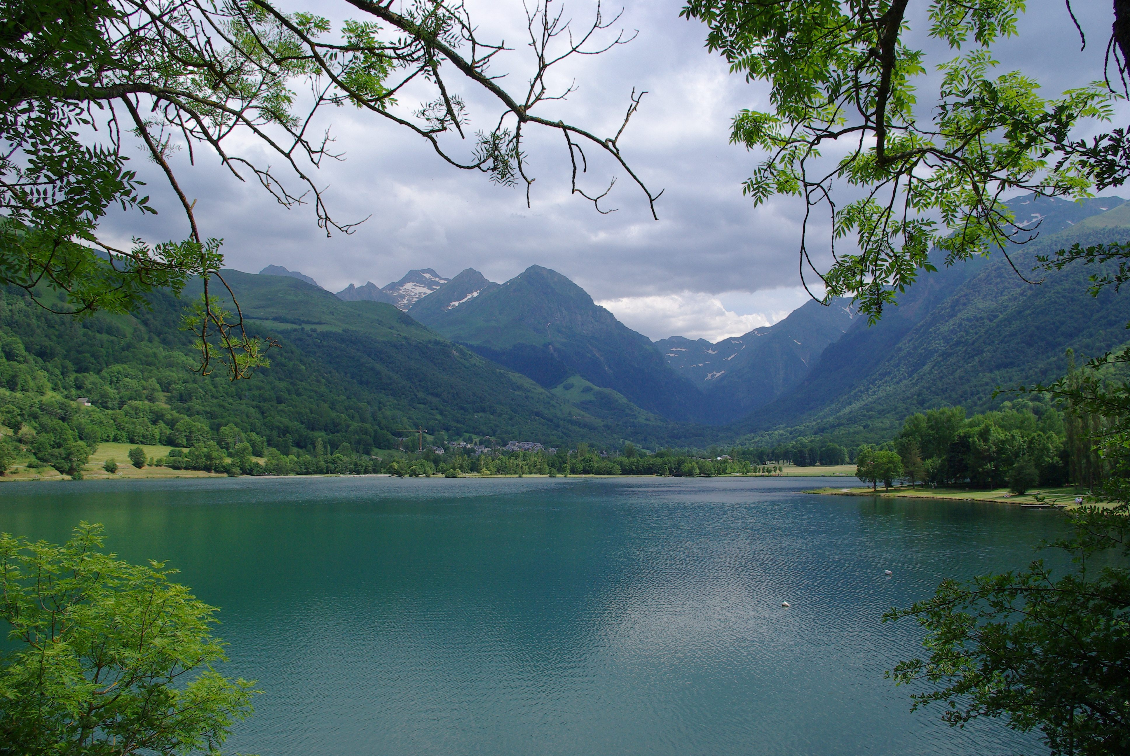 The lake of Loudenvielle-Génos as seen from North and the site of Loudenvielle, Hautes-Pyrénées, France.